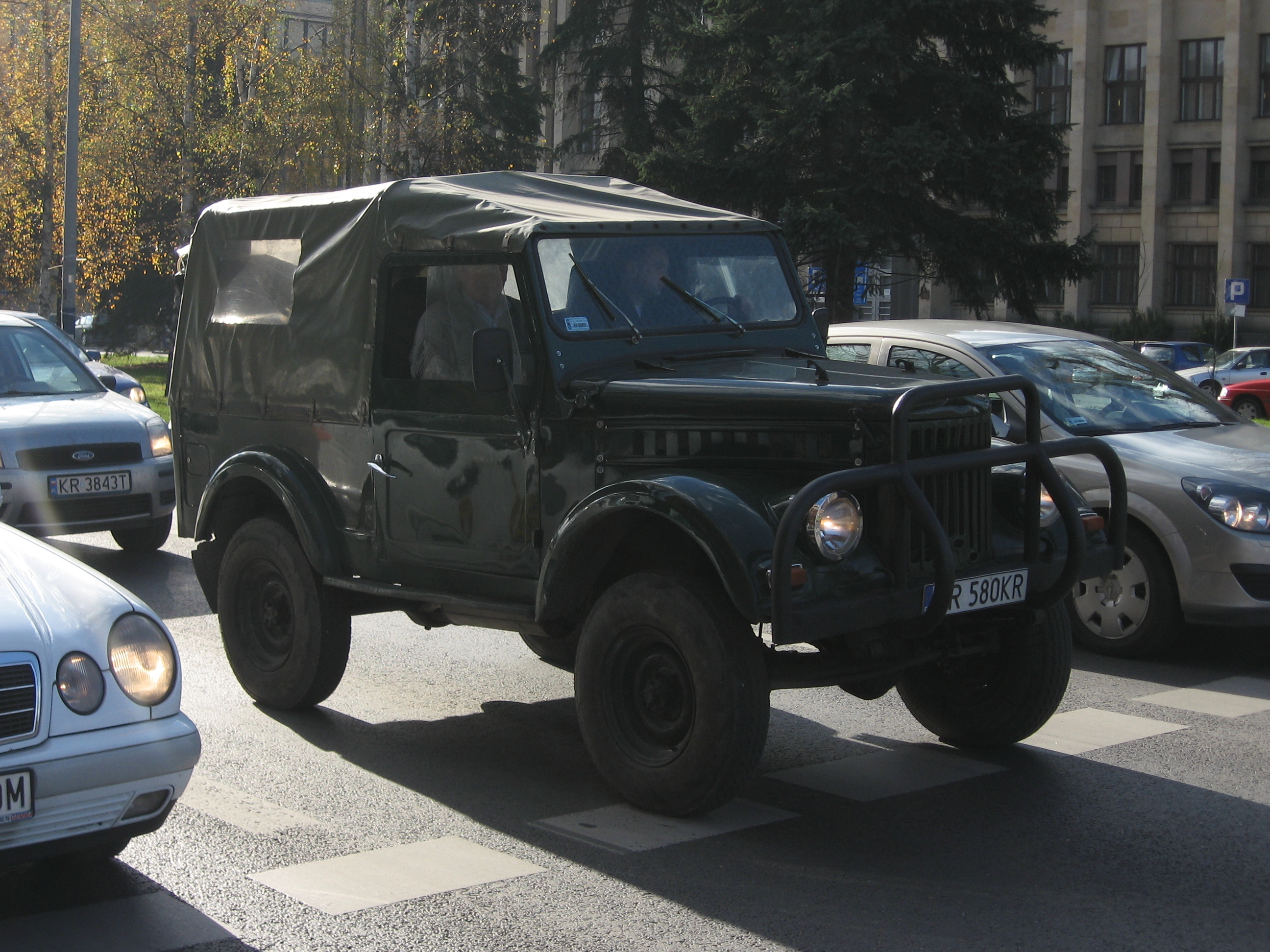 ARO M461C on Adama Mickiewicza avenue in Kraków, Poland.